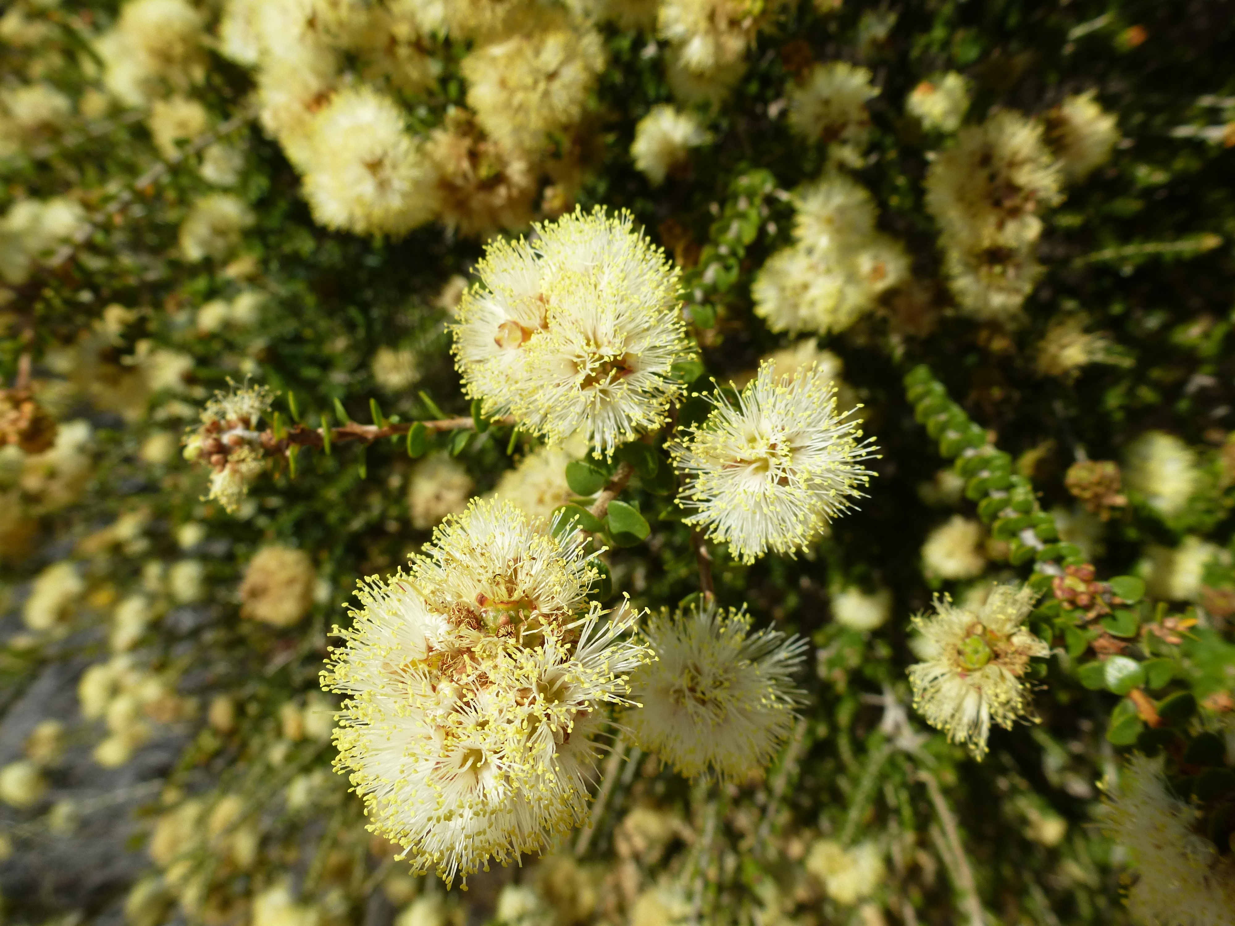 Melaleuca huttensis growing at the type location near Coronation Beach Road